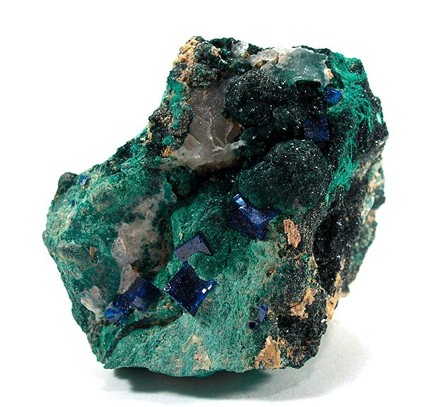 Atacamite, Boleite, Malachite Locality: Santa Rosa Mine, Noche Buena, Municipio de Mazapil, Zacatecas, Mexico (Locality at ) Size: miniature, 5.1 x 3.8 x 2.1 cm Boleite with Atacamite and Malachite A very rare specimen of sharp boleite crystals to 5mm on SOLID MATRIX ...this is rare in itself. What is more, the matrix is a mix of copper species that are very rare in this deposit, ESPECIALLY in association with the boleite. In fact, even on the few other matrix pieces I have seen, the atacamite is more a smear on the rock than an actual crystallized accessory species as we see here. This is therefore not just a pretty specimen, but a sigificant locality piece - and probably a very old one dating to the early finds here prior to 1900.